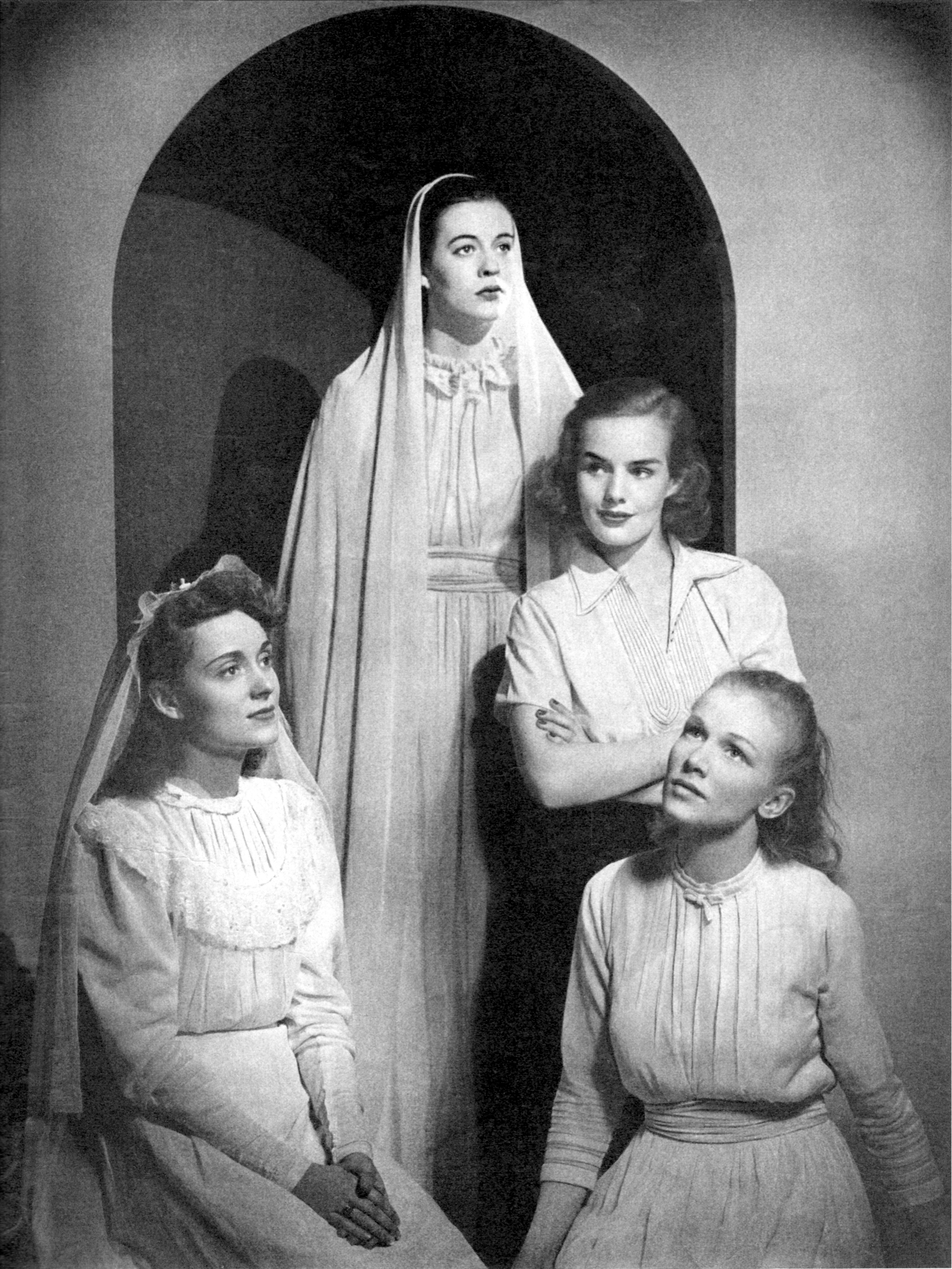 Photograph of Martha Scott, Uta Hagen, Frances Farmer and Julie Haydon, whose performances during the 1937–38 season were cited for excellence in the theatre by Stage Caption reads as follows:Because the season brought us these four young actresses, each in her own way radiant and unforgettable. Because Our Town brought us Martha Scott, fresh and bursting with the hope of youth. Because The Sea Gull brought us Uta Hagen, stately, eloquent, with a deep fire. Because Golden Boy brought us Frances Farmer, cool, lovely, thoughtfully resigned to an imperfect life. Because Shadow and Substance brought us Julie Haydon, wrapped in the pale majestic glow of faith that passes all understanding. Because the four of them proved again that nothing, not even beauty, can take the place of sincerity and simplicity in acting.